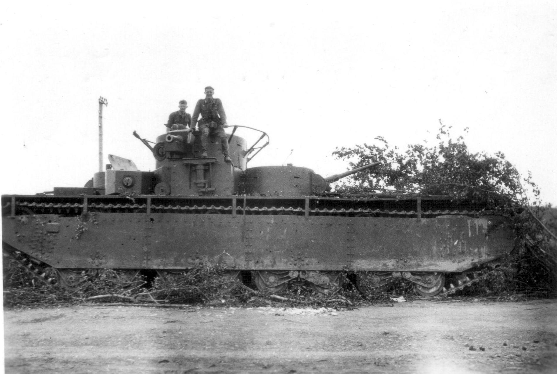 Russian heavy battle tank T-35 model 1935